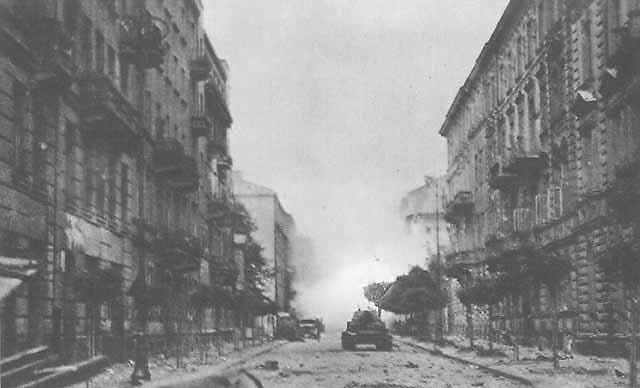 Warsaw Uprising: View on Piusa Street (today's Piękna Street) : in the back burns Mała PASTa building, set on fire by insurgents from Ruczaj Battalion. Nearby destroyed German tanks.